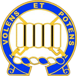 7th Infantry Regiment Distinctive Unit Insignia. A gold color metal and enamel device 1 1/4 inches (3.18cm) in height overall consisting of the crest and motto of the coat of arms. Symbolism: The cotton bale and bayonets are taken from the arms of the 7th Infantry adopted in 1912. Volens et Potens stands for Willing and Able. Background: The distinctive unit insignia was originally approved on 18 Oct 1923. It was revised 13 Mar 1973 to clarify description and symbolism.